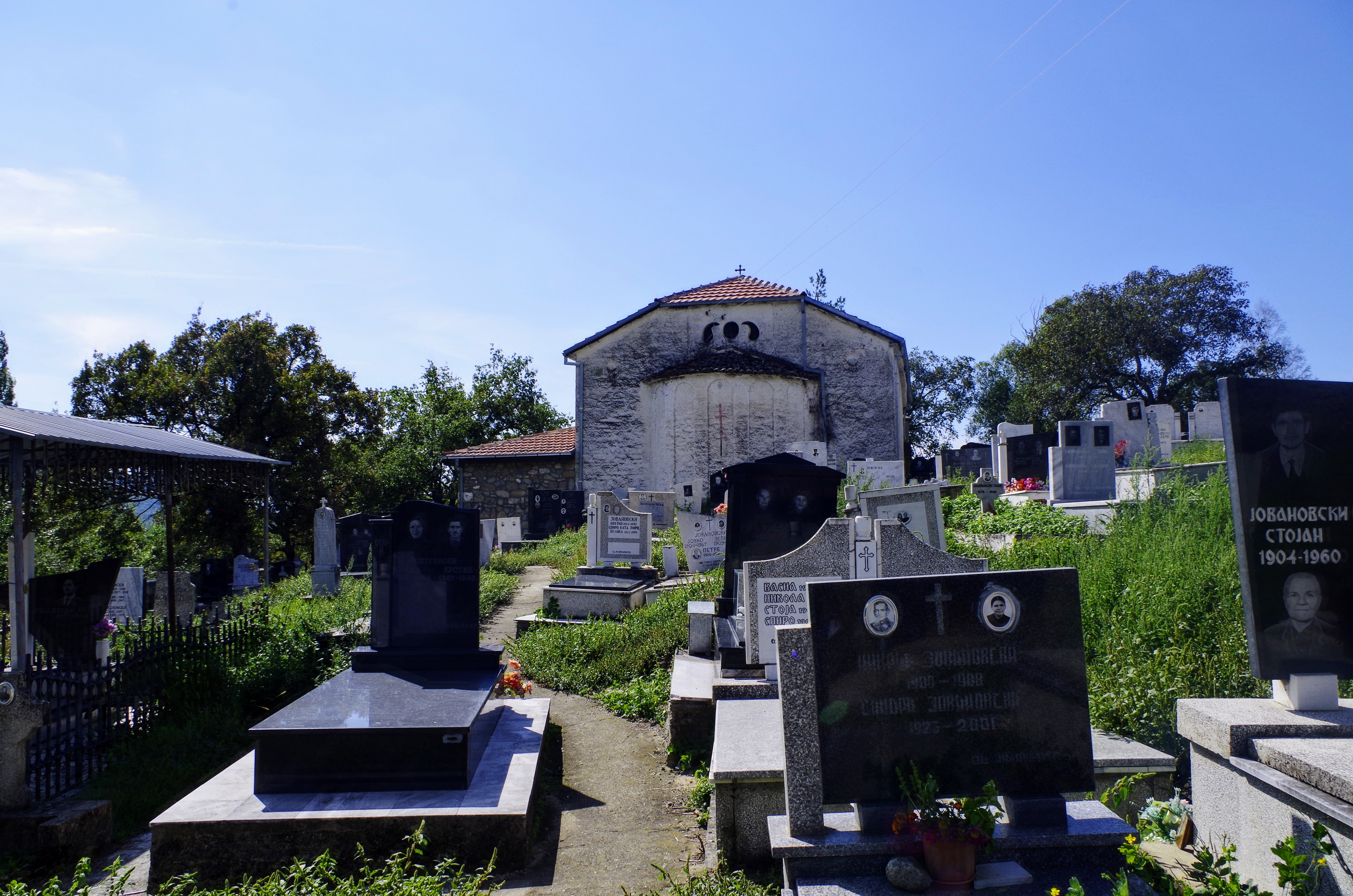 View of the St. Nicholas Church in the village Brajčino